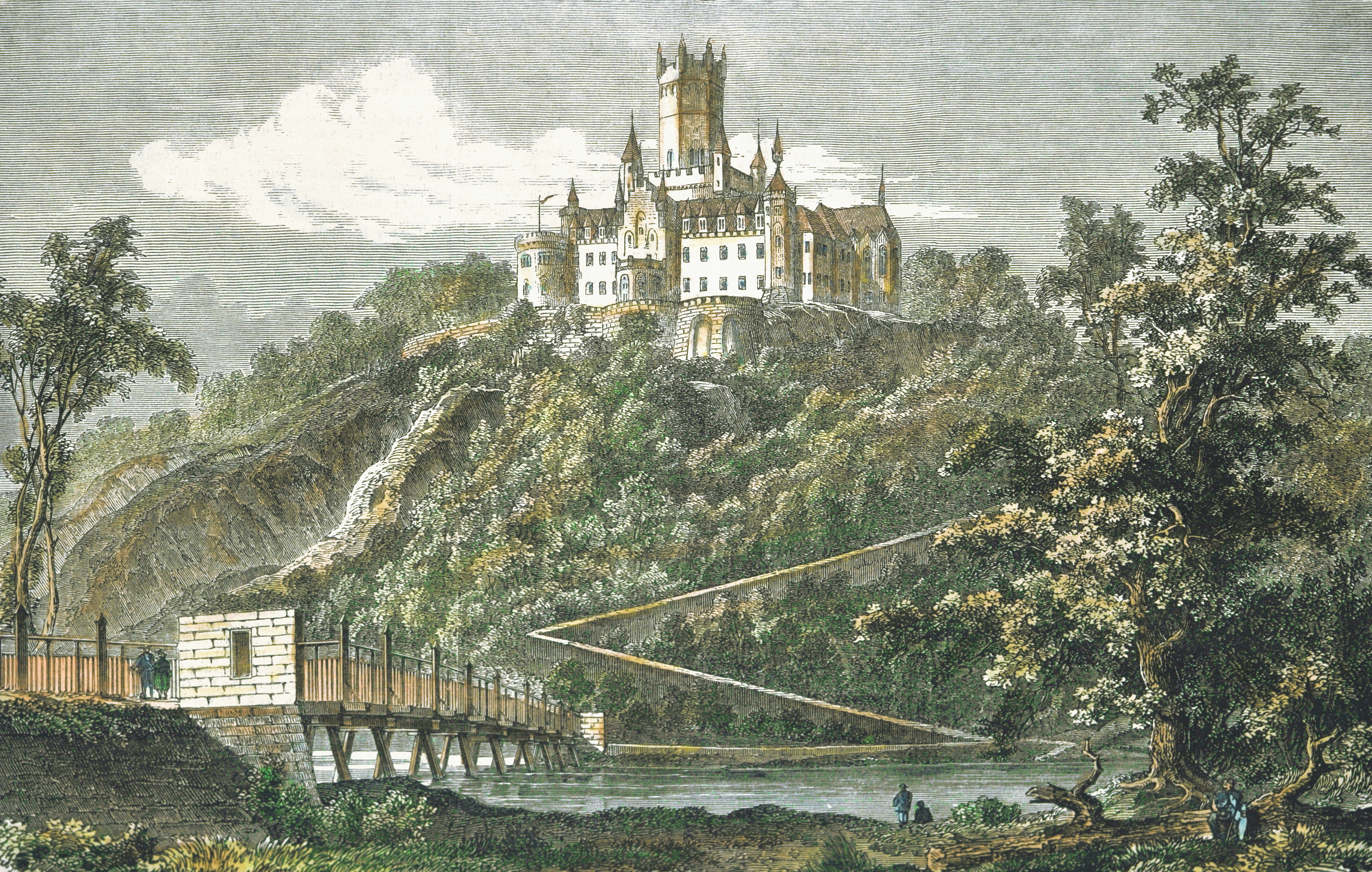 Marienburg Castle and the bridge near Nordstemmen about 1864.